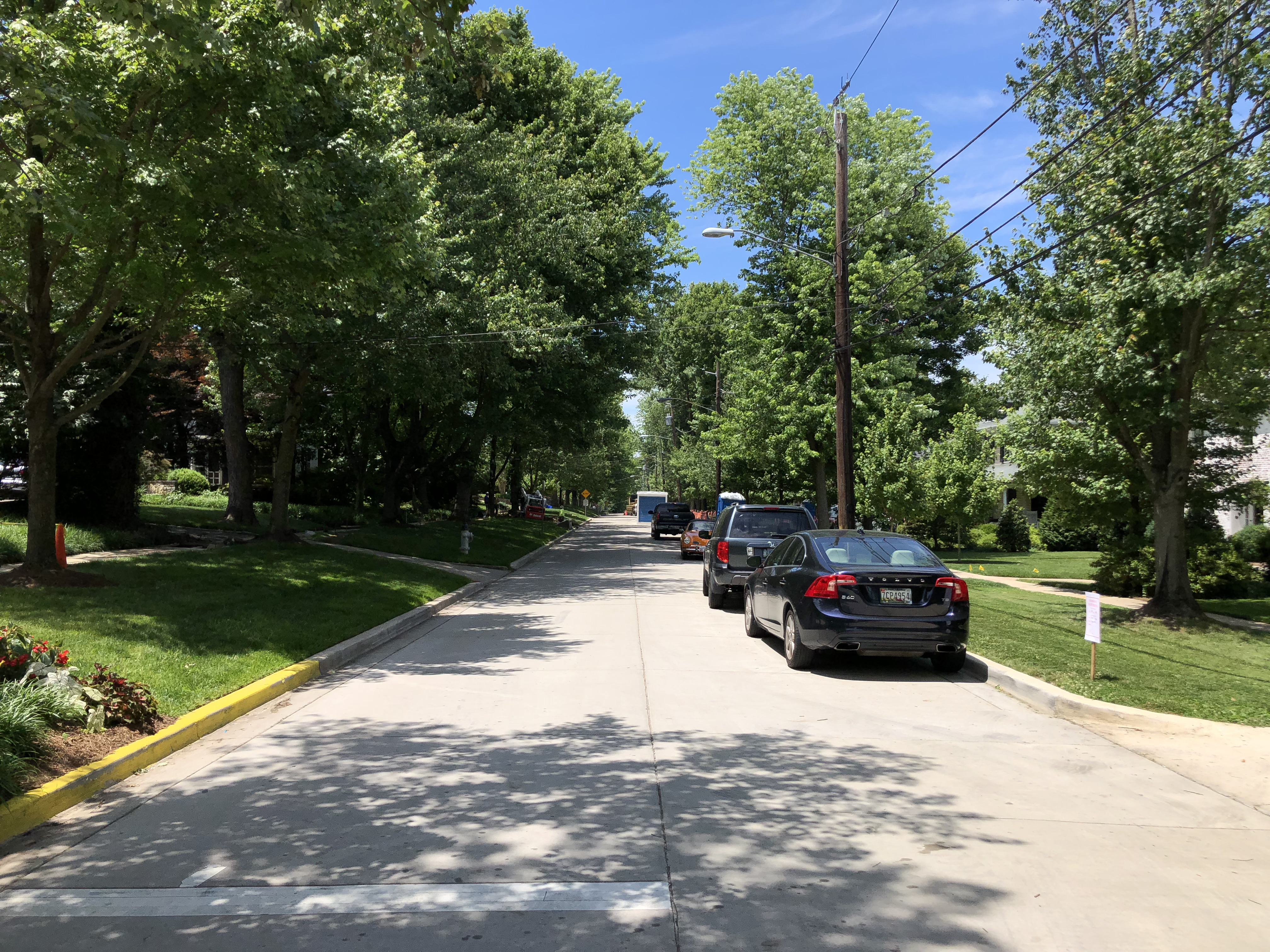 View west along Drummond Avenue at Warwick Lane in Drummond, Montgomery County, Maryland